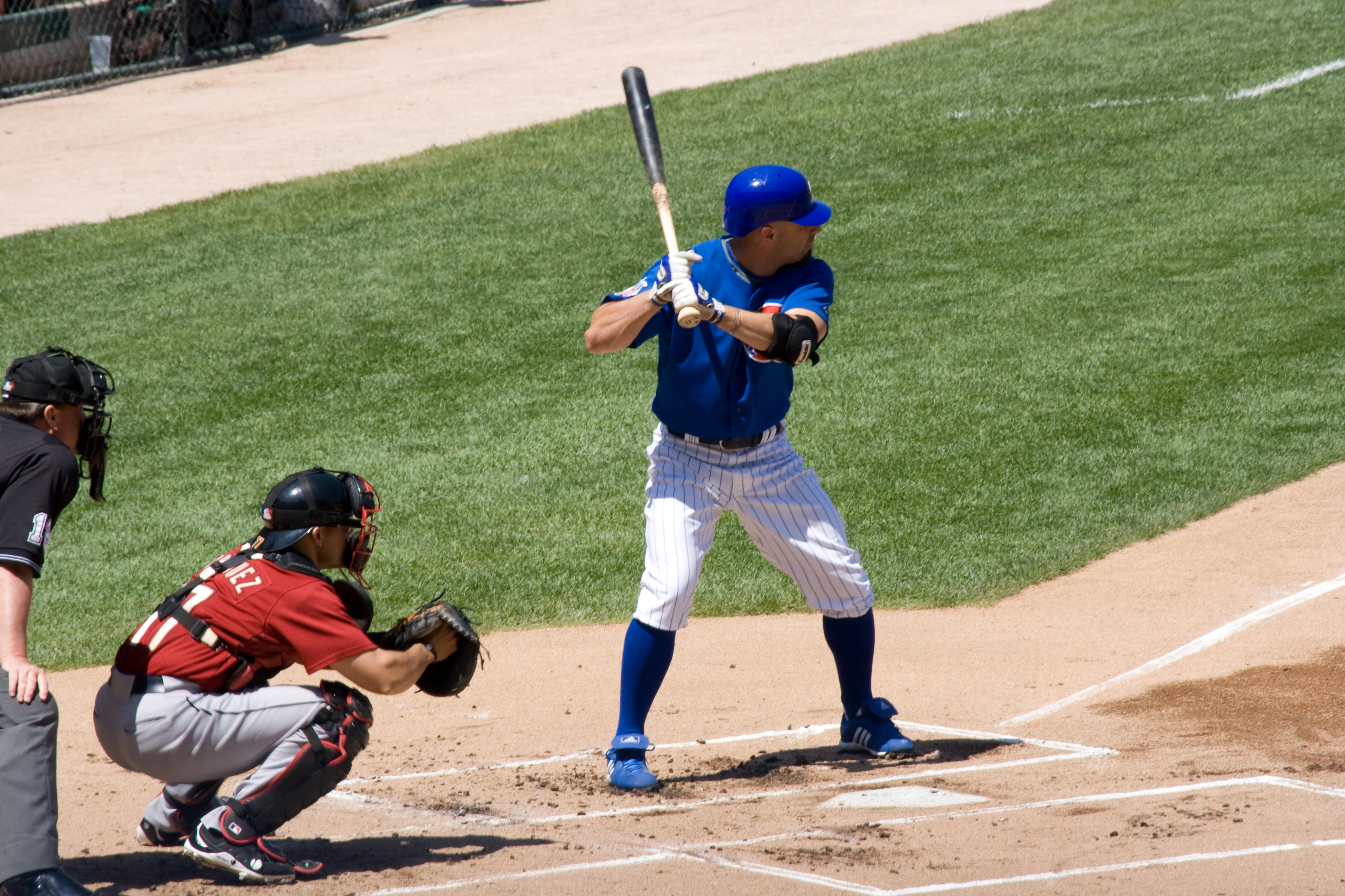 Reed Johnson of the Chicago Cubs - 2009-07-29